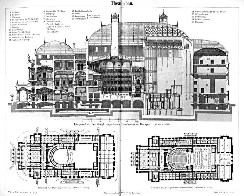 Budapest State Opera